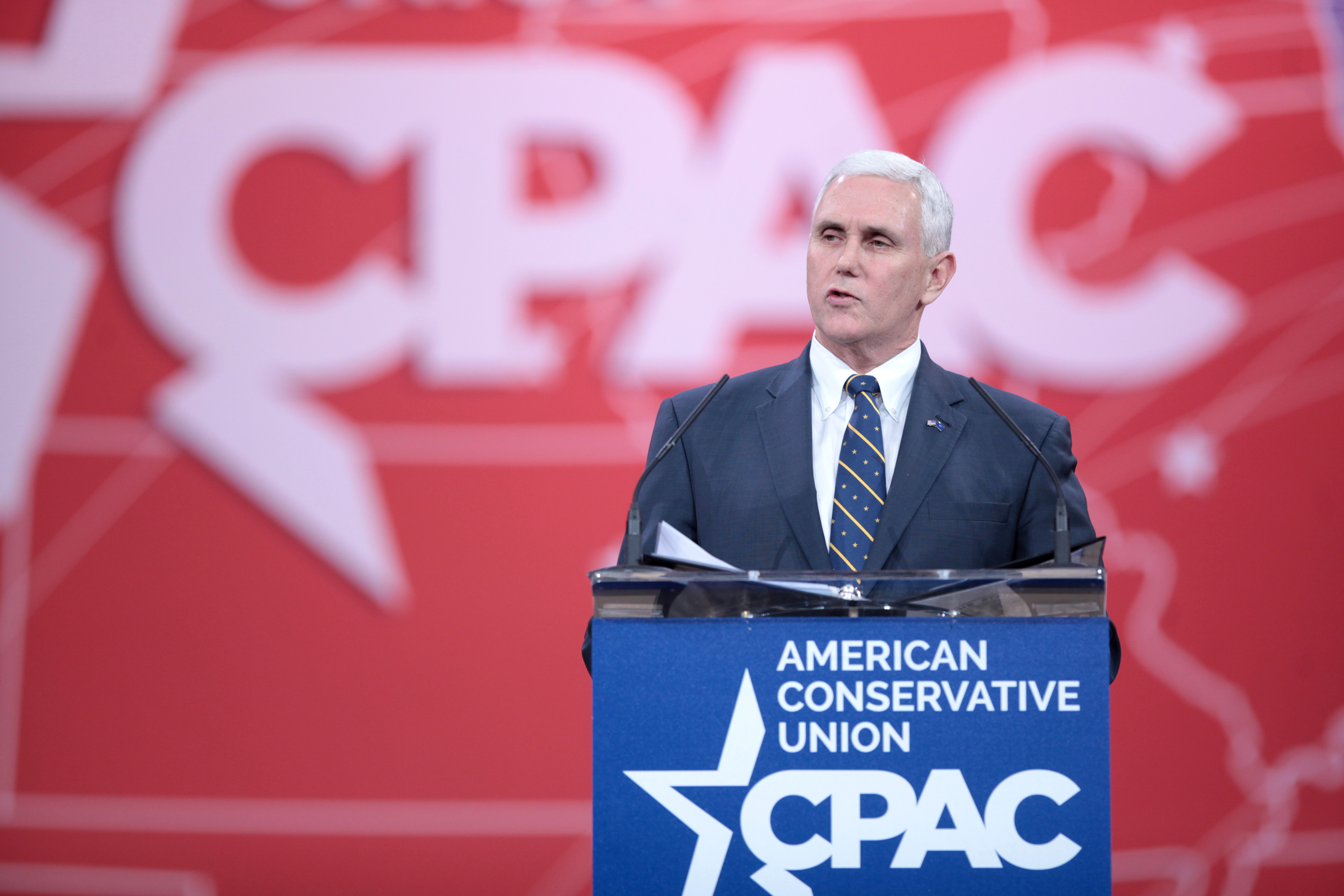 Mike Pence speaking at CPAC 2015 in Washington, DC.